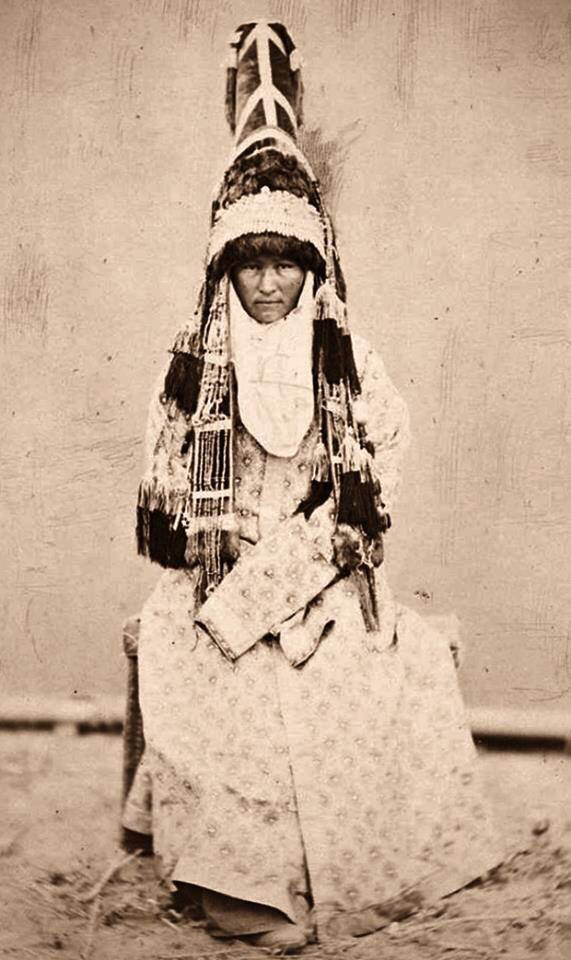 an authentic photo of a kazakh bride in her ceremonial wedding garb complete with head-dress(headgear). circa. 1800's-1900's